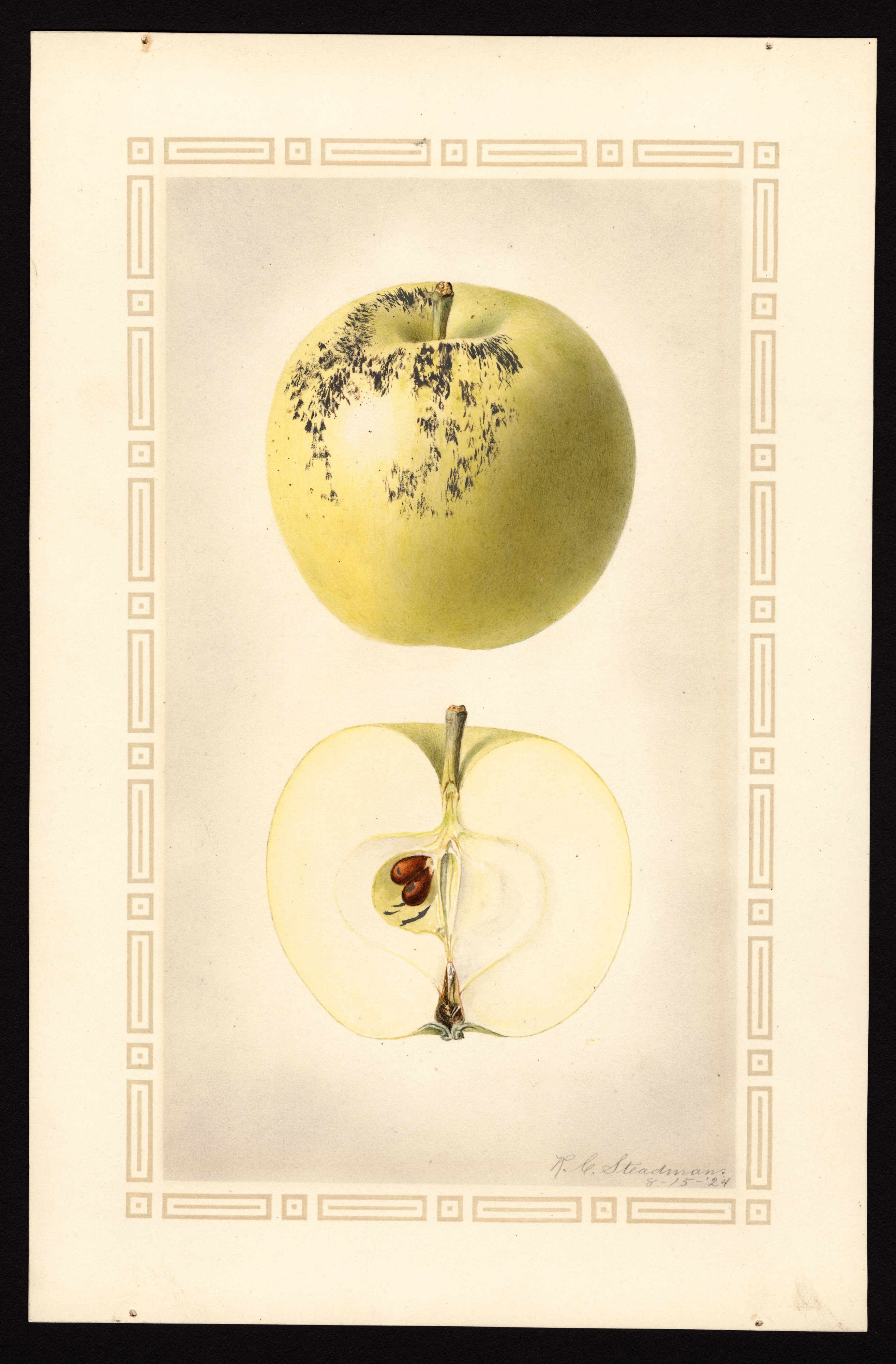 Image of the Shoemaker variety of apples (scientific name: Malus domestica), with this specimen originating in Rosslyn, Arlington County, Virginia, United States. Source: U.S. Department of Agriculture Pomological Watercolor Collection. Rare and Special Collections, National Agricultural Library, Beltsville, MD 20705.